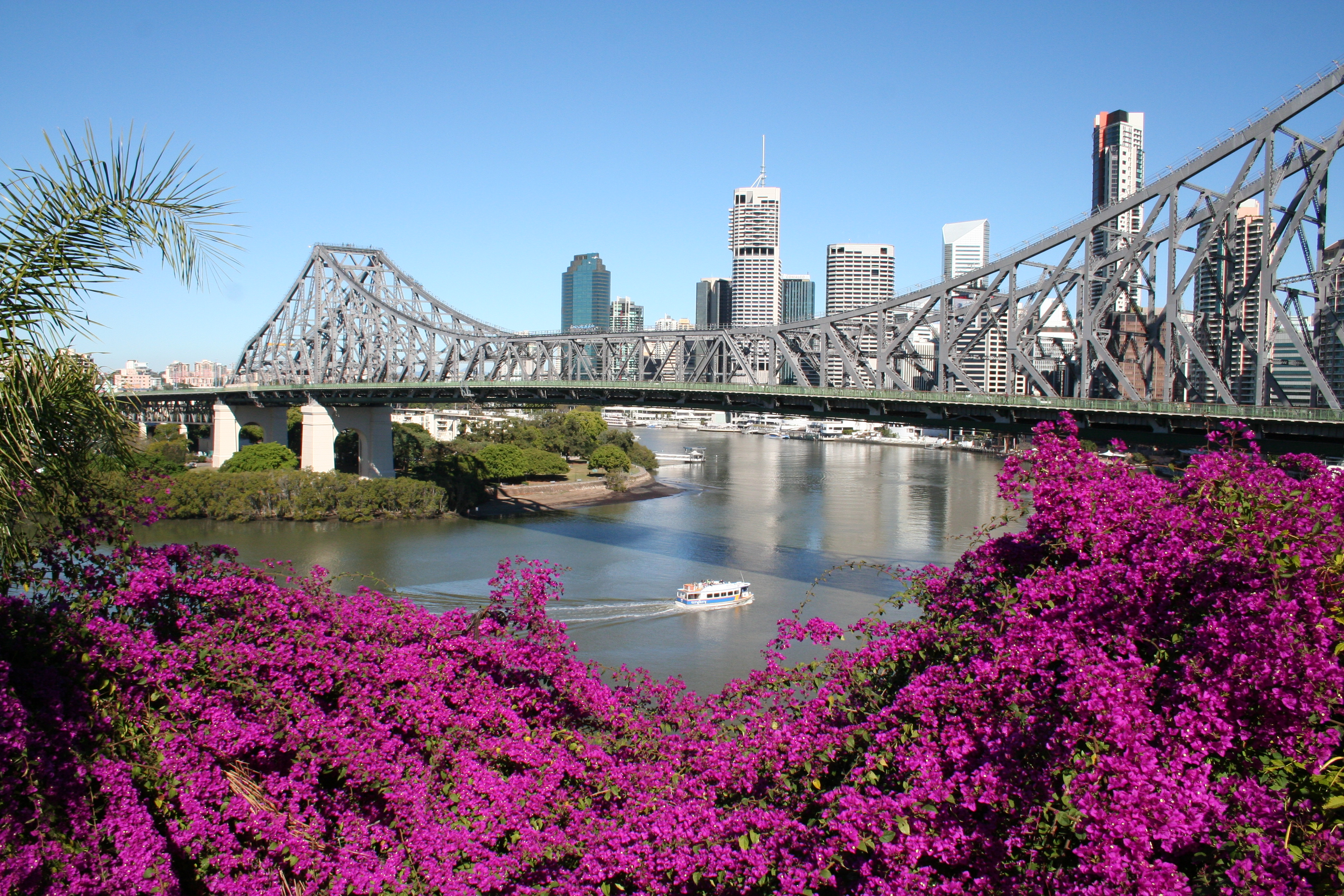 photograph of Story Bridge, Brisbane, Australia